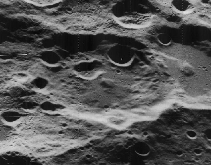 Oblique view of Comrie K crater (center) with Comrie at right, on the far side of the moon, facing west.